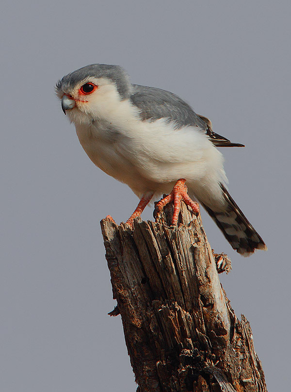 An adult male African Pygmy-falcon at Buffalo Springs National Park, Kenya.